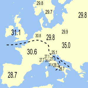 Map of Europe showing variation of apothecaries' weight standards around 1800. 1 apothecary ounce in grammes. Lines indicate different ways to subdivide. Based on BlankMap-Europe_no_boundaries.svg.